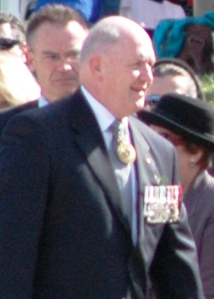 Peter Cosgrove at the 2008 National Anzac Day service, Australian War Memorial, Canberra.